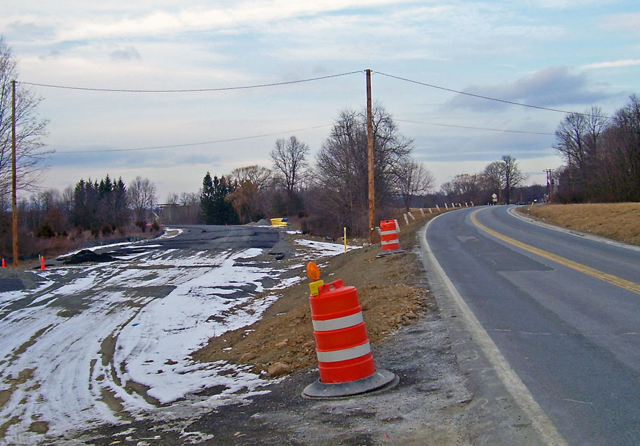 Photographed by Daniel Case 2007-02-12